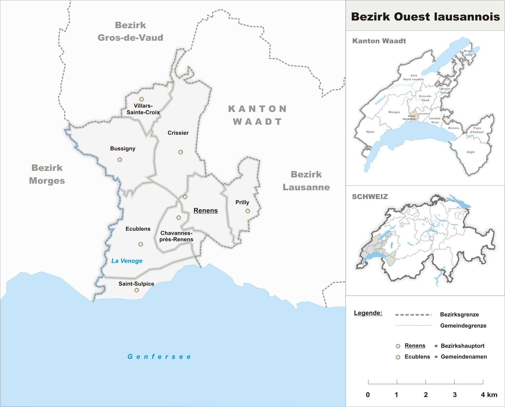 Municipalities in the district of Nyon Map drawn by Tschubby